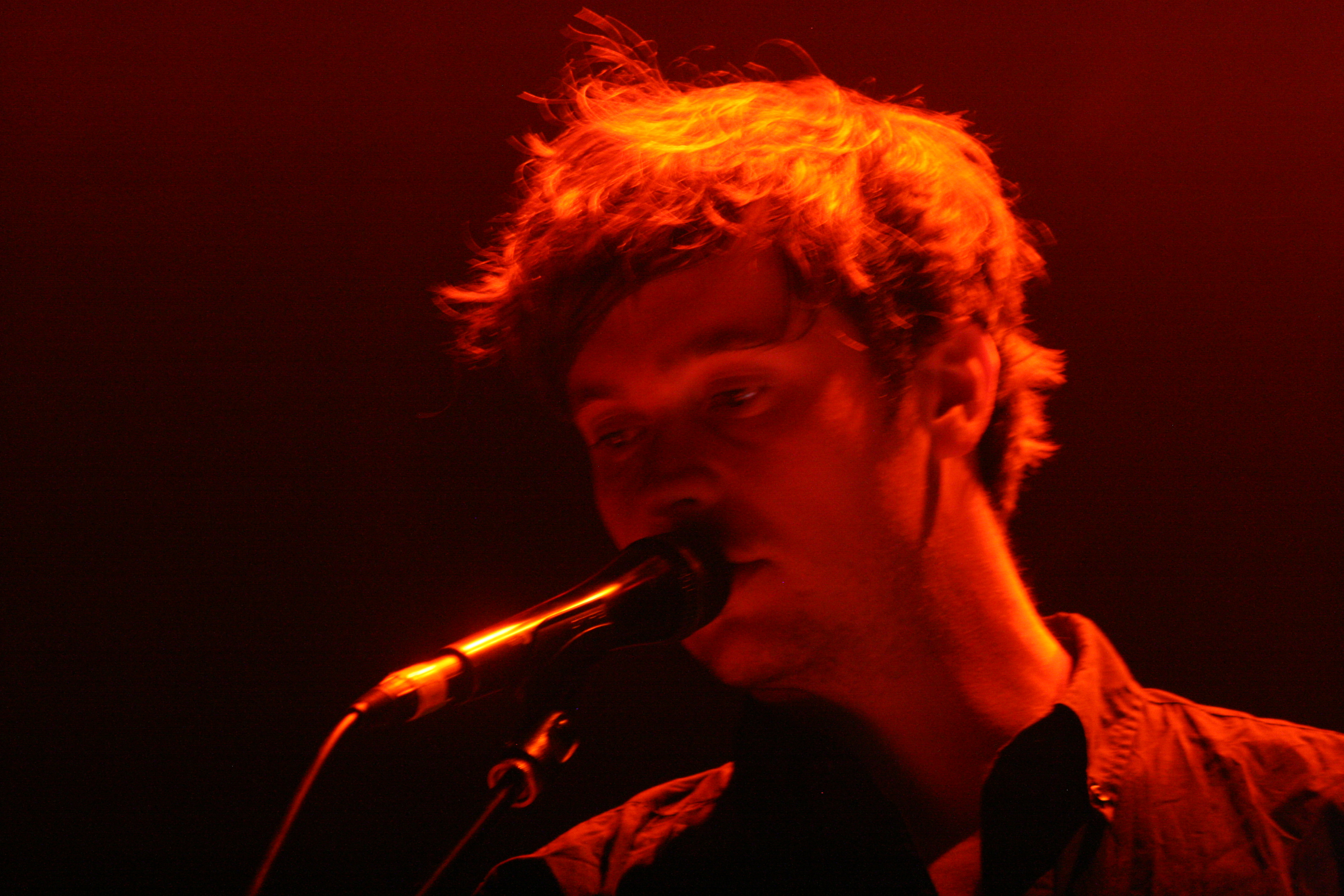 Washed Out ::: Ogden Theatre ::: 10.04.11